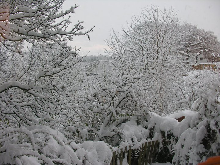 View of Hagg Bank Bridge from Hagg Bank in winter 2010.